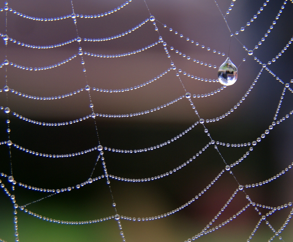 Spider web covered with dew